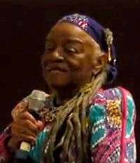 American artist Faith Ringgold at the symposium "We Wanted a Revolution"